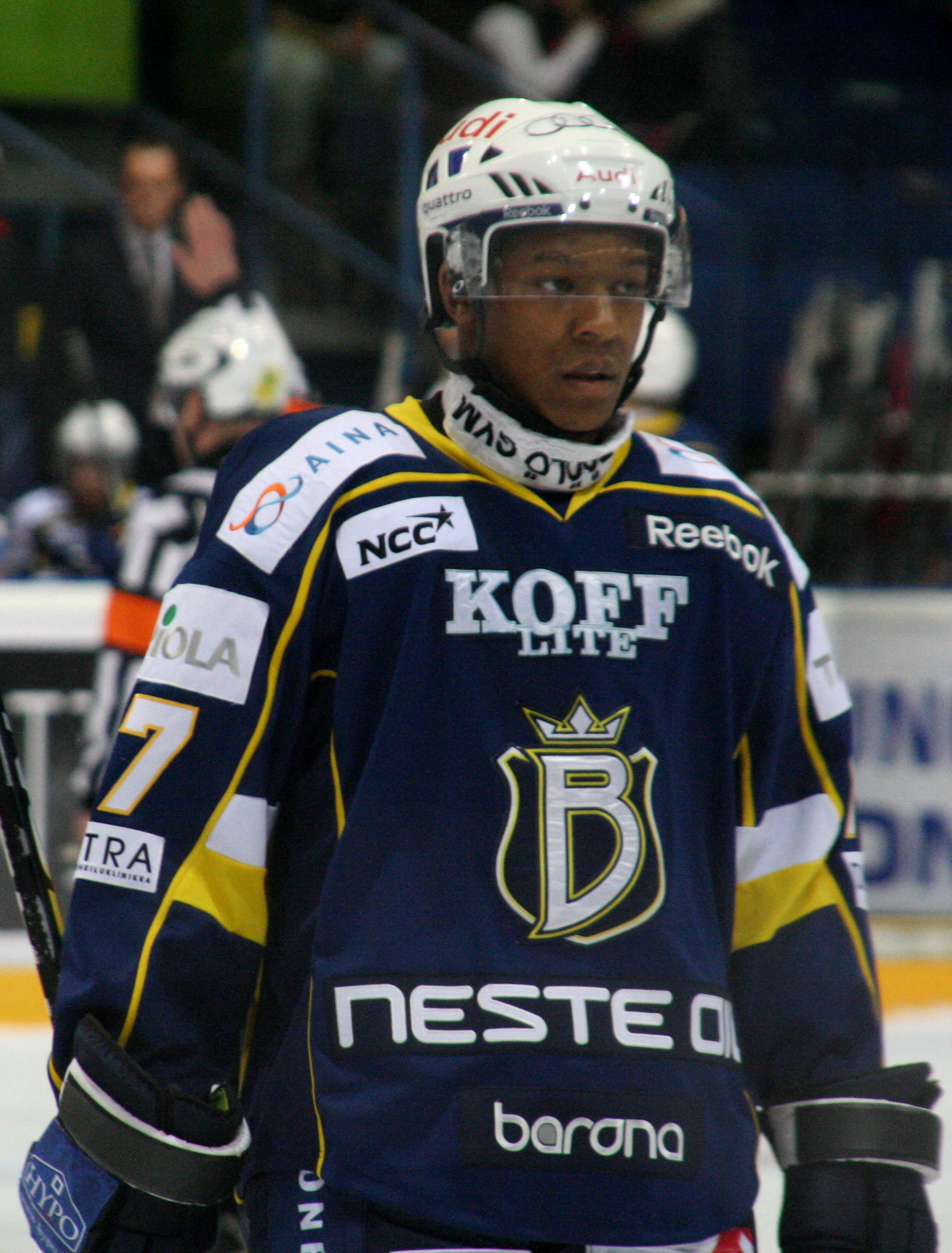 Ice Hockey Team Espoo Blues' Attacker #17 Nathan Robinson